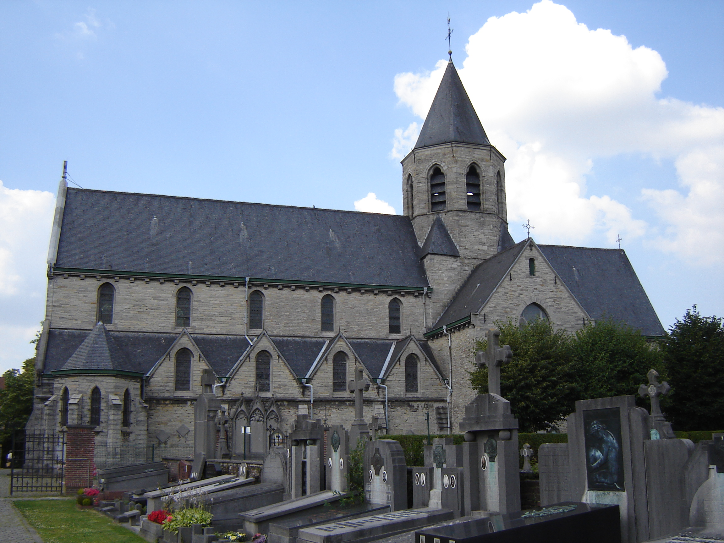 Church of Our Lady in Mariakerke. Mariakerke, Gent, East Flanders, Belgium